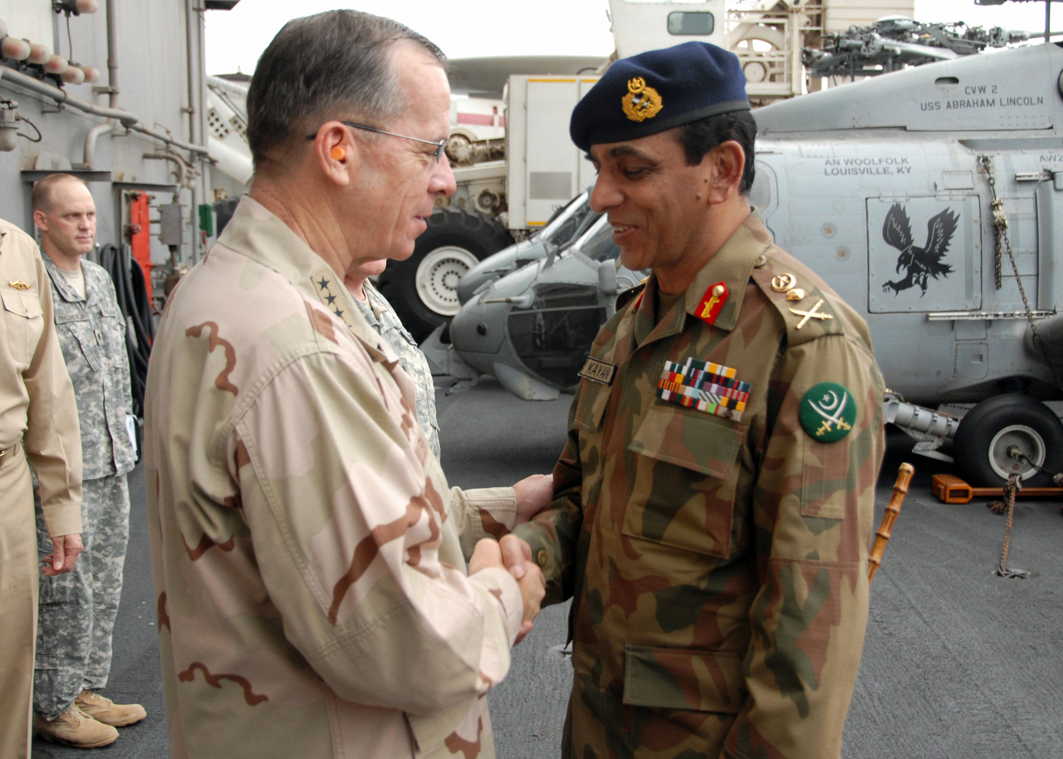 NORTH ARABIAN SEA (Aug.27, 2008) Chairman, Joint Chiefs of Staff, Adm. Mike Mullen greets Pakistani Chief of Army Staff, Gen. Ashfaq Kayani, after arriving aboard the aircraft carrier USS Abraham Lincoln (CVN 72). Lincoln is deployed to the U.S. 5th Fleet area of operations supporting Operations Iraqi Freedom and Enduring Freedom as well as maritime security operations. (U.S. Navy photo by Mass Communication Specialist 1st Class William John Kipp Jr./Released)